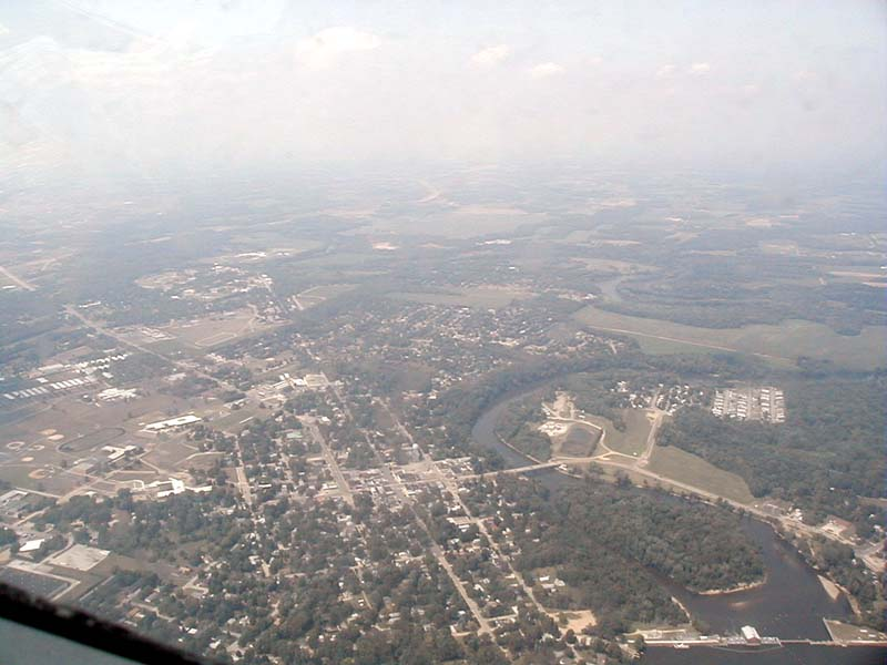 An aerial view of the city of Berrien Springs, MI, taken by David Mack.